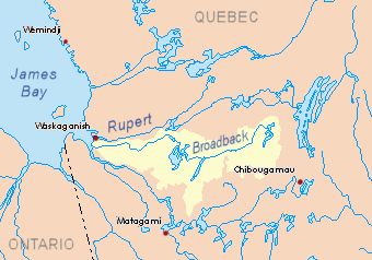 Drainage basin of the Broadback River, Quebec, Canada